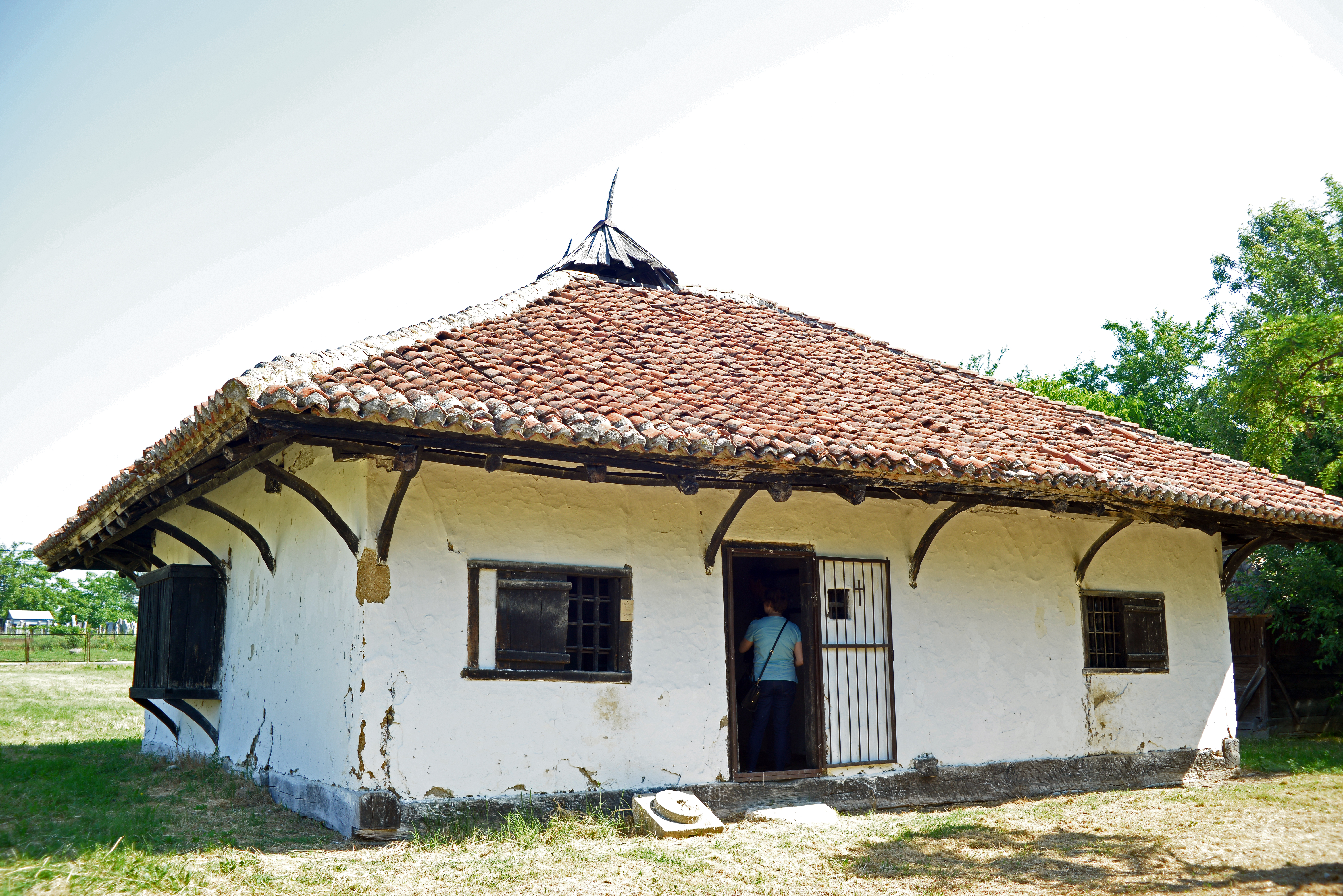 House of the Matic family, an example of the Serbian folk architecture, in the churchyard of the Elijah the Prophet church in Vranic, Barajevo (Municipality of Belgrade, Serbia)